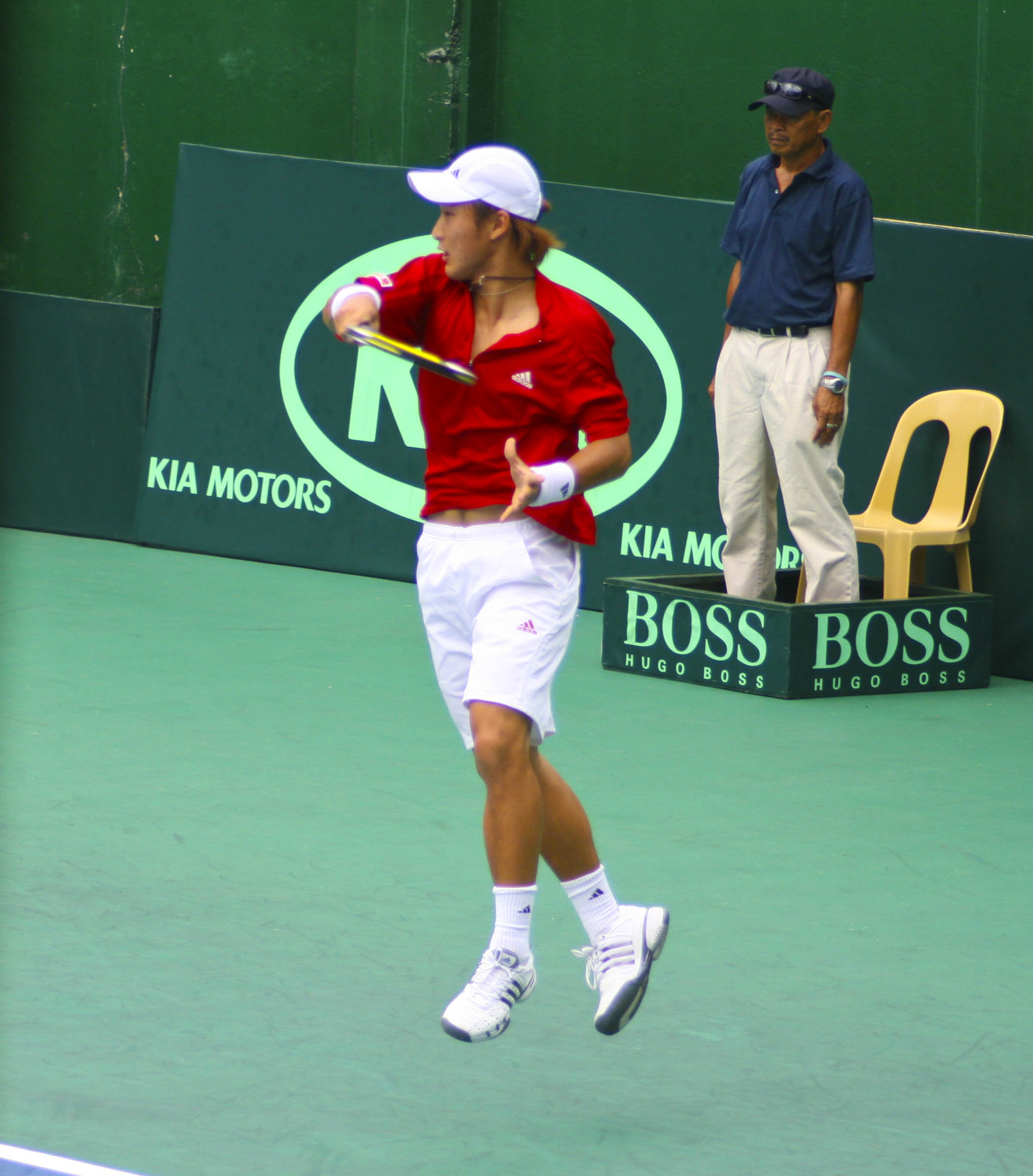 Go Soeda, tennis player from Japan